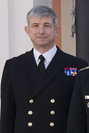 160226-N-OX801-038 NAVAL SUPPORT ACTIVITY NAPLES, Italy (Feb. 26, 2016) From left to right: Commander, NATO Allied Maritime Command, Royal Navy, Vice Adm. Clive Johnstone; Chief of Bulgarian Naval Operations, Rear Adm. Mitko Petev; Chief of Romanian Naval Forces Staff, Rear Adm. Alexandru Mirsu; Commander, U.S. 6th Fleet, Vice Adm. James Foggo III; Commander, U.S. Naval Forces Europe-Africa Adm. Mark Ferguson; Turkish Naval Forces Chief of Staff, Vice Adm. Gerhart Dulger; Commander, Ukrainian Navy, Vice Adm. Serhii Hajduk; Director of Georgian Coast Guard Department, Capt. Temur Kvantaliani; gather for a photo during the Black Sea Maritime Security Symposium, U.S. 6th Fleet headquarters, Feb. 26, 2016. Senior leaders from the maritime forces in the Black Sea region met in Naples, Italy, for the first Black Sea Maritime Security Symposium hosted by Commander, U.S. Naval Forces Europe Feb. 25-26, 2016. The intent of the symposium is to enhance regional cooperation by sharing insights and developing recommendations to address mutual maritime security concerns. (U.S. Navy photo by Mass Communication Specialist 2nd Class Daniel P. Schumacher/Released)